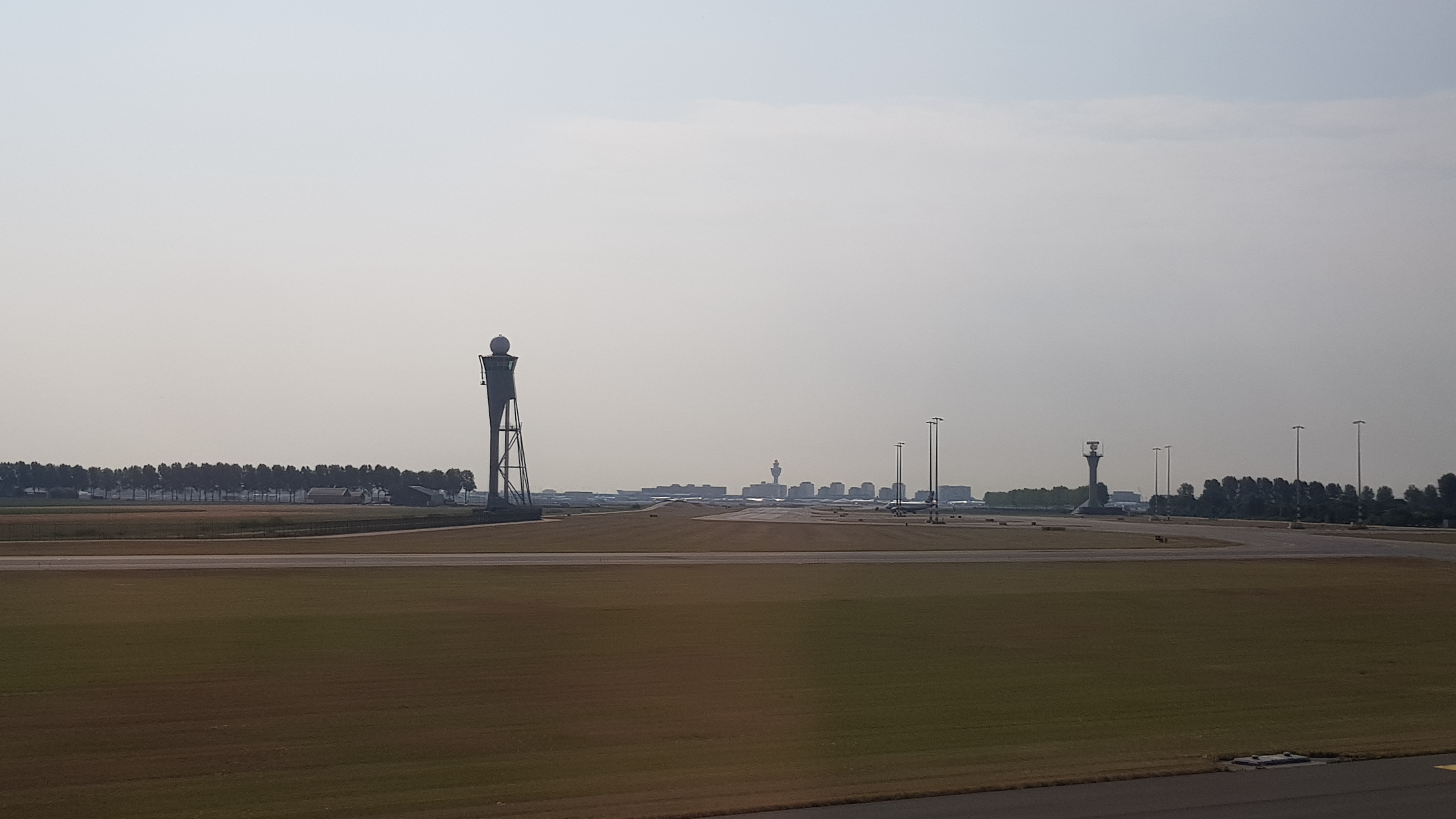 Schiphol seen from Polderbaan, Amsterdam Airport Schiphol, Netherlands